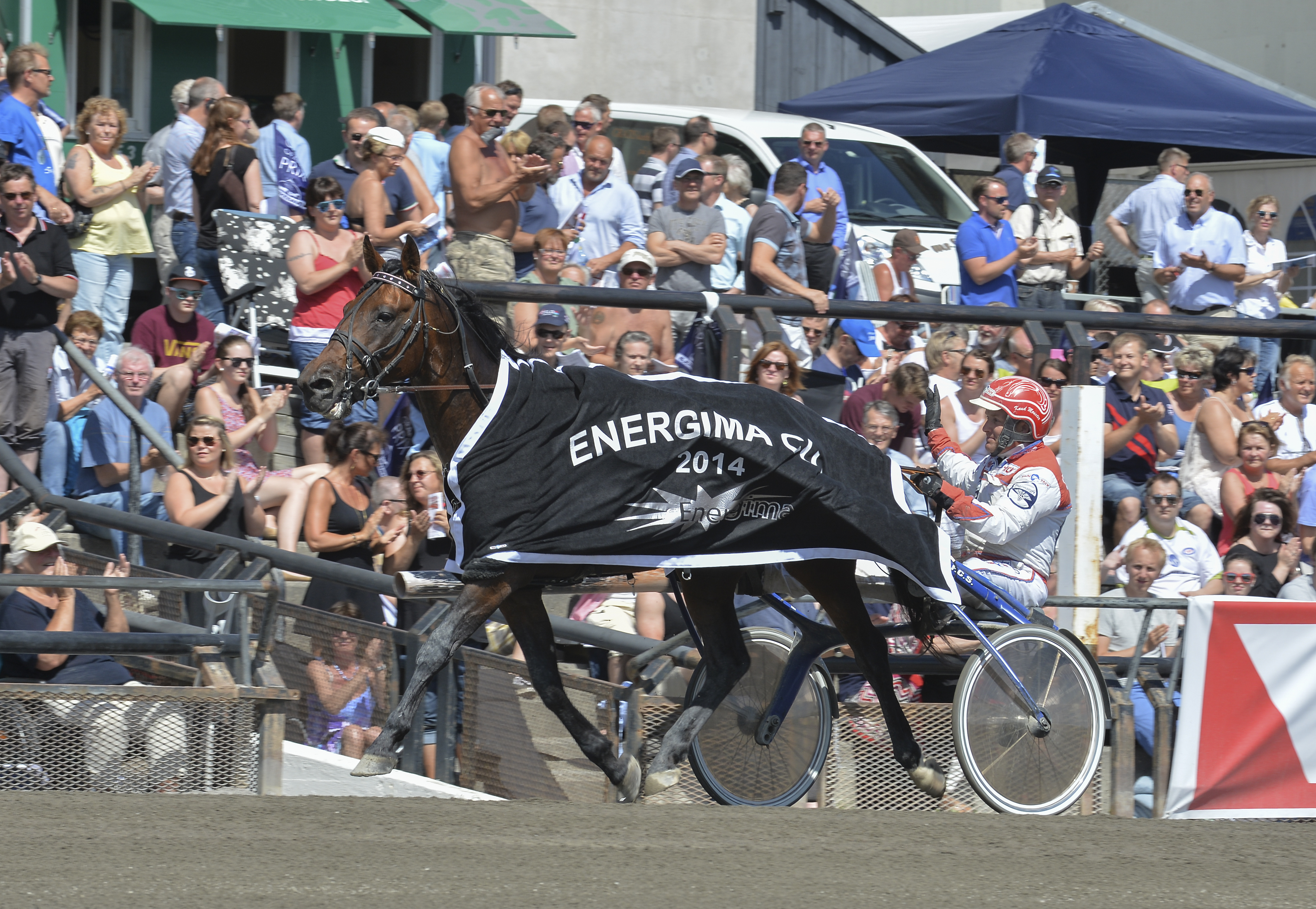 Repay Merci and Knud Mönster after winning Energima Cup 2014-06-08 in Norway.